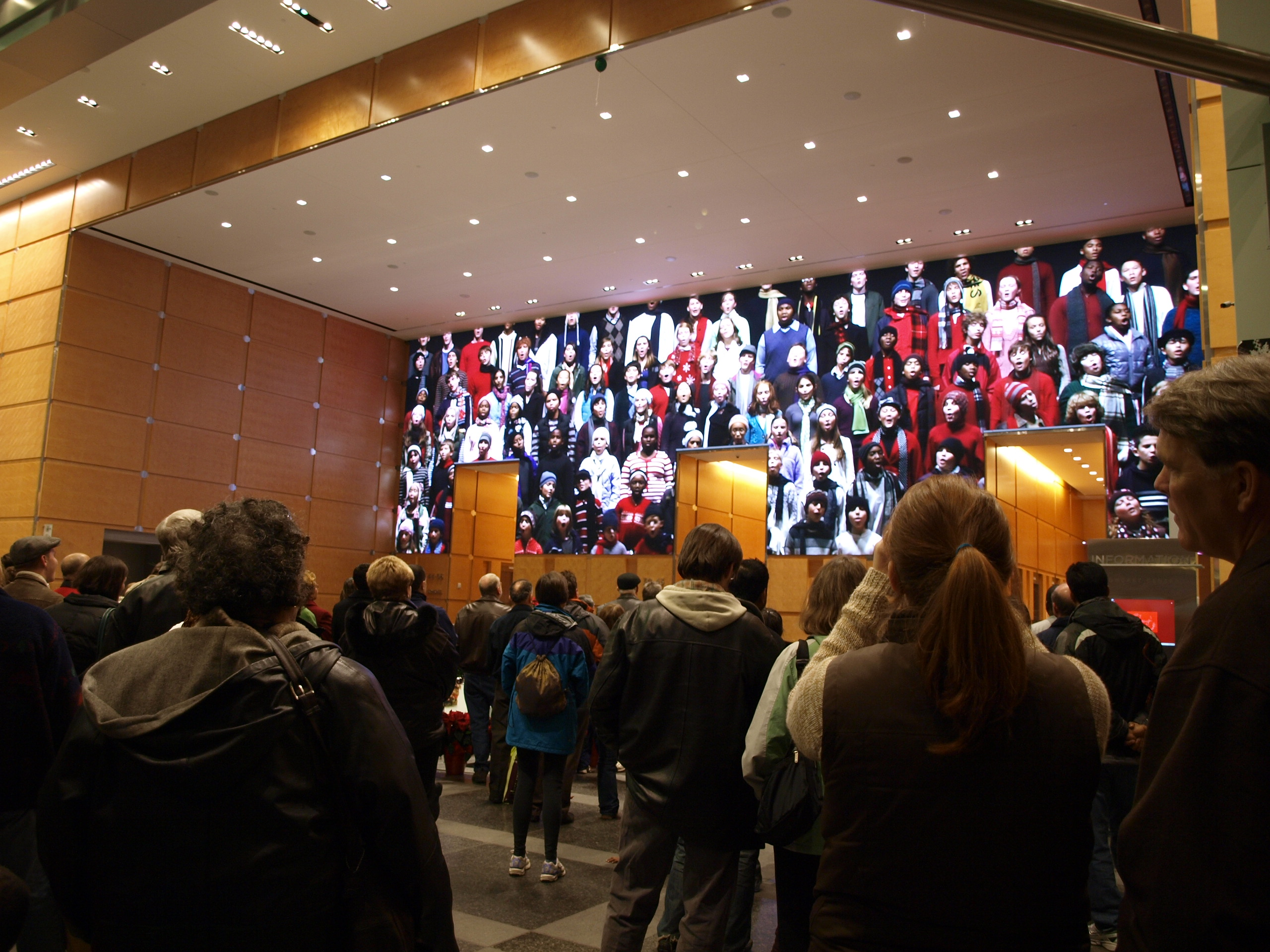 People watching the Comcast Experience Holiday Show in the lobby of the Comcast Center, Philadelphia, Pennsylvania, in 2008.